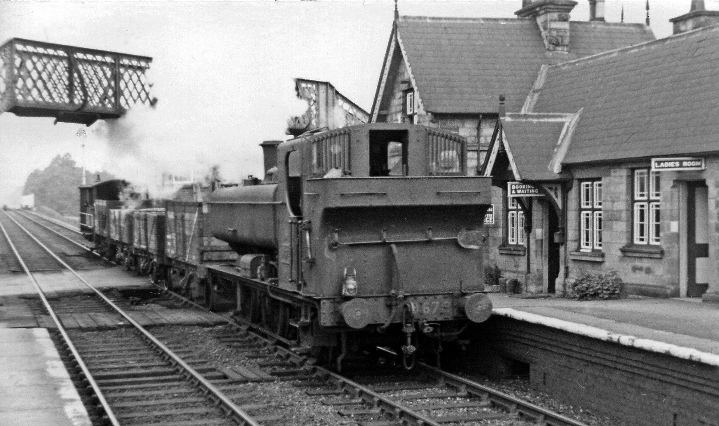 Onibury station remins, with a southbound local goods train. View NW, towards Shrewsbury: ex-GW & LNW Joint Shrewsbury - Hereford main line. Onibury station was closed 9/6/58. '8750' class 0-6-0PT No. 9672 was built 6/48, withdrawn 12/65.